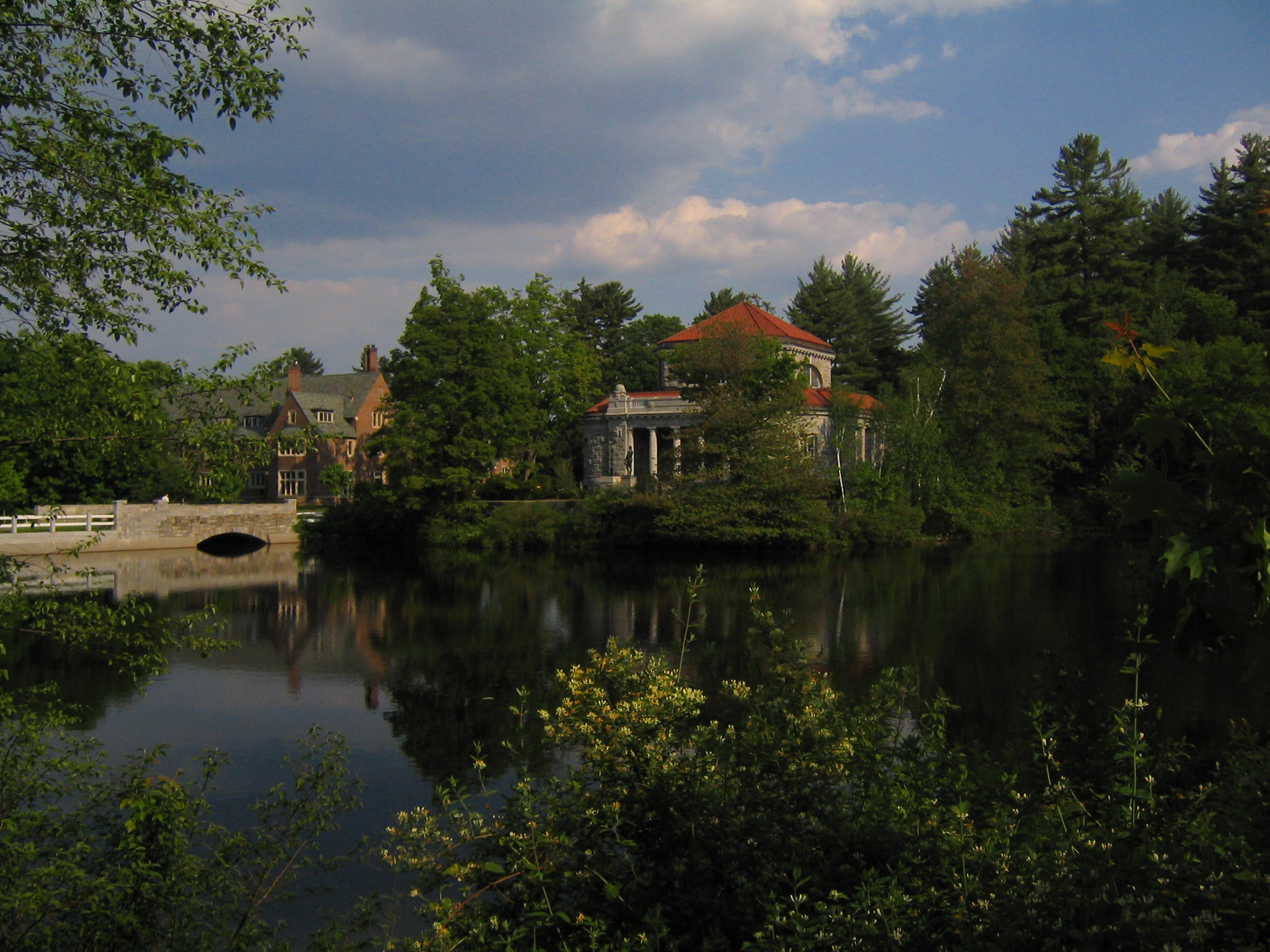 The Sheldon admissions building, formerly the school's library, peeks out from late spring foliage.